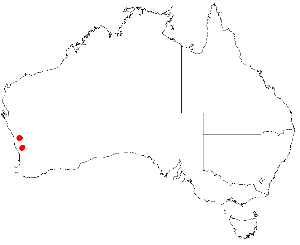 Acacia aculeiformis Occurrence data from Australasia Virtual Herbarium downloaded from on 8 December 2018